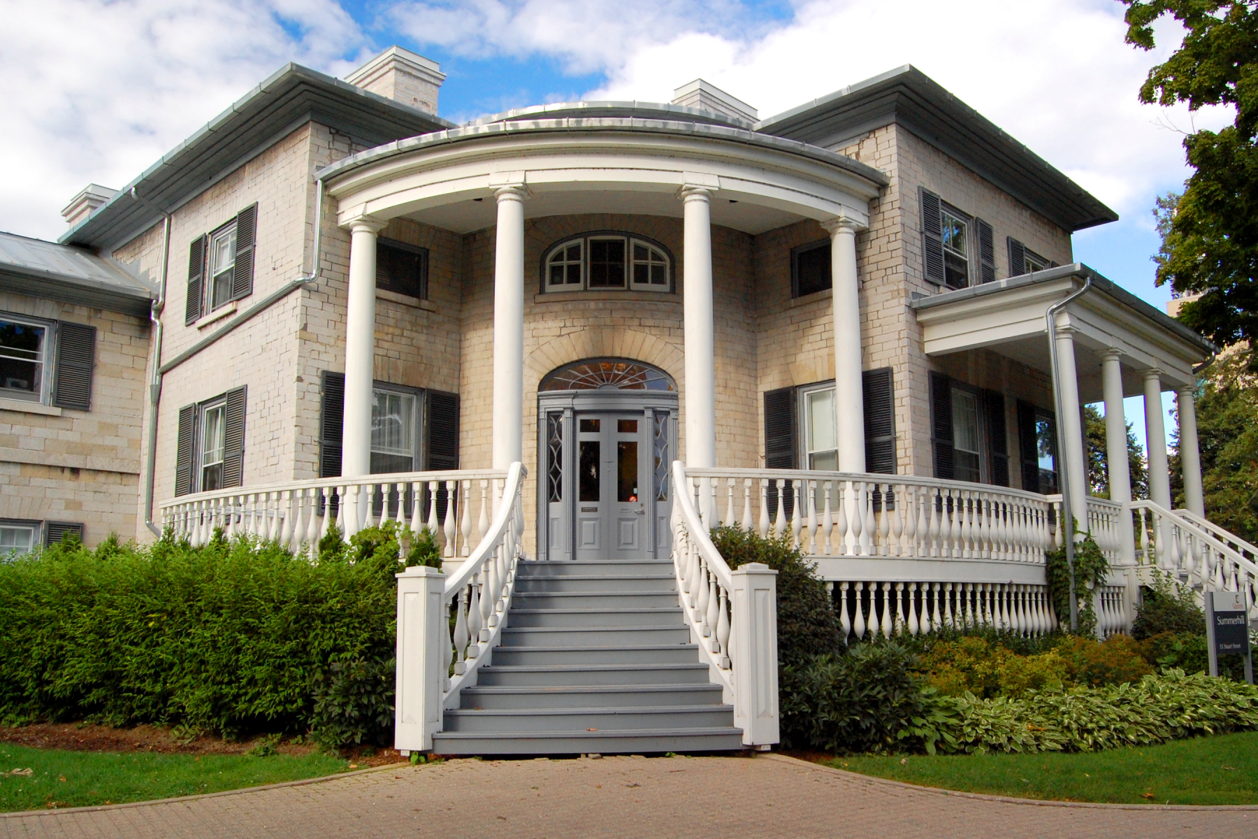 Shot on the campus of Queen's University, Kingston, Ontario, Canada.